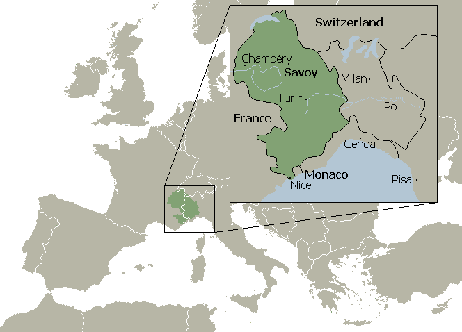 Map of Savoy in the 16th century. In the large map, white lines are modern boundaries.